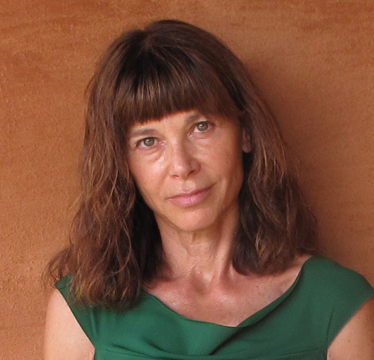 Francesca Marciano 2012